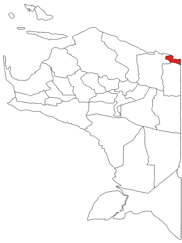 Locator of Jayapura City within Papua Province